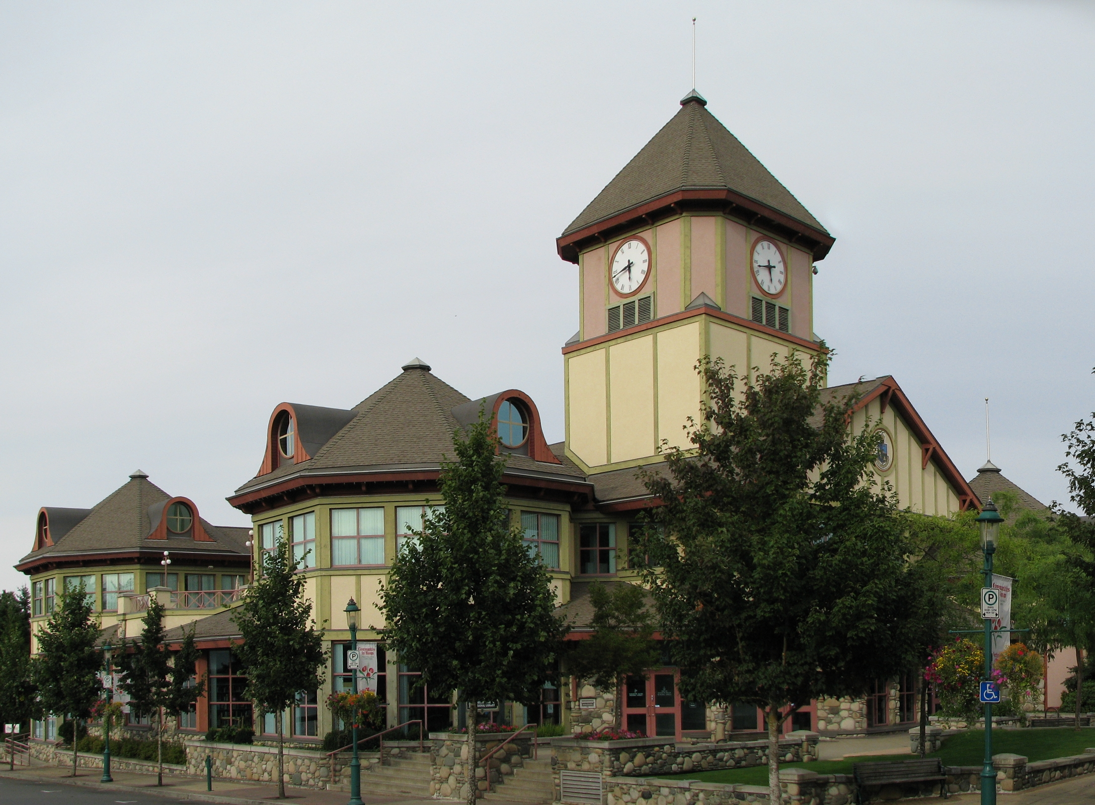 Town Hall, Primrose Street, Qualicum Beach, BC